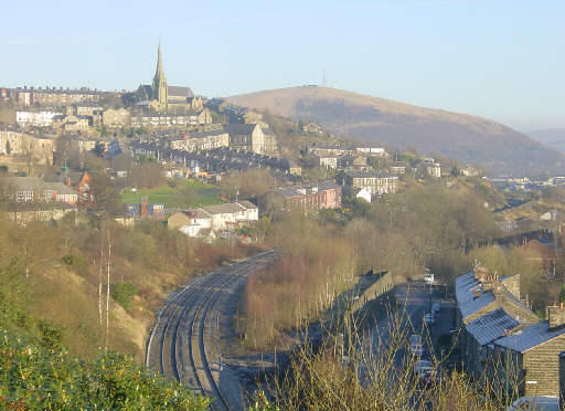 A view of Mossley in Greater Manchester, England looking north from near Mossley Station, towards Roughtown Church and Milton